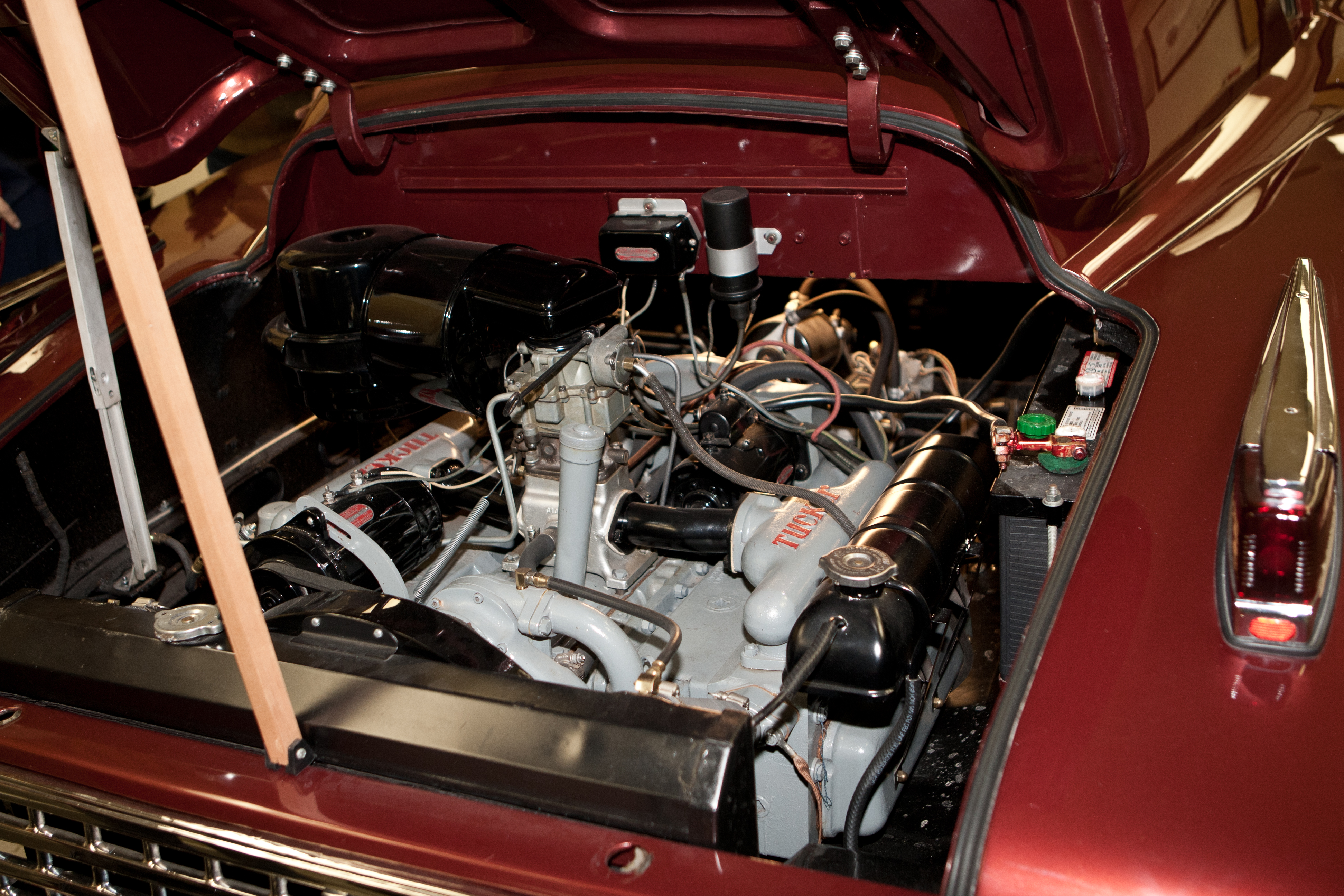 Tucker Model: ‘48 #1001 Engine: Franklin O-335 Six-cylinder Horizontally opposed, 334 Cubic inches, 166 hp Cammack Collection of Tucker automobiles, AACA Museum, Hershey, PA 17033